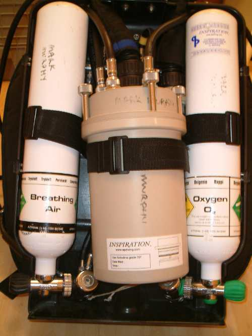 Two 3 litre, 232 bar, DIN cylinders inside a Ambient Pressure Diving Inspiration semi-closed circuit rebreather set.